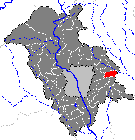 This map shows the area of the Gemeinde (municipality) Höf-Präbach in the Bezirk (district) Graz-Umgebung, Styria, Austria.